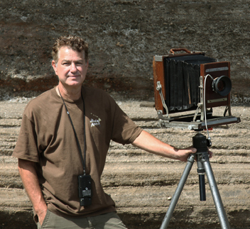 Mark Arbeit, Lava wall, Oahu